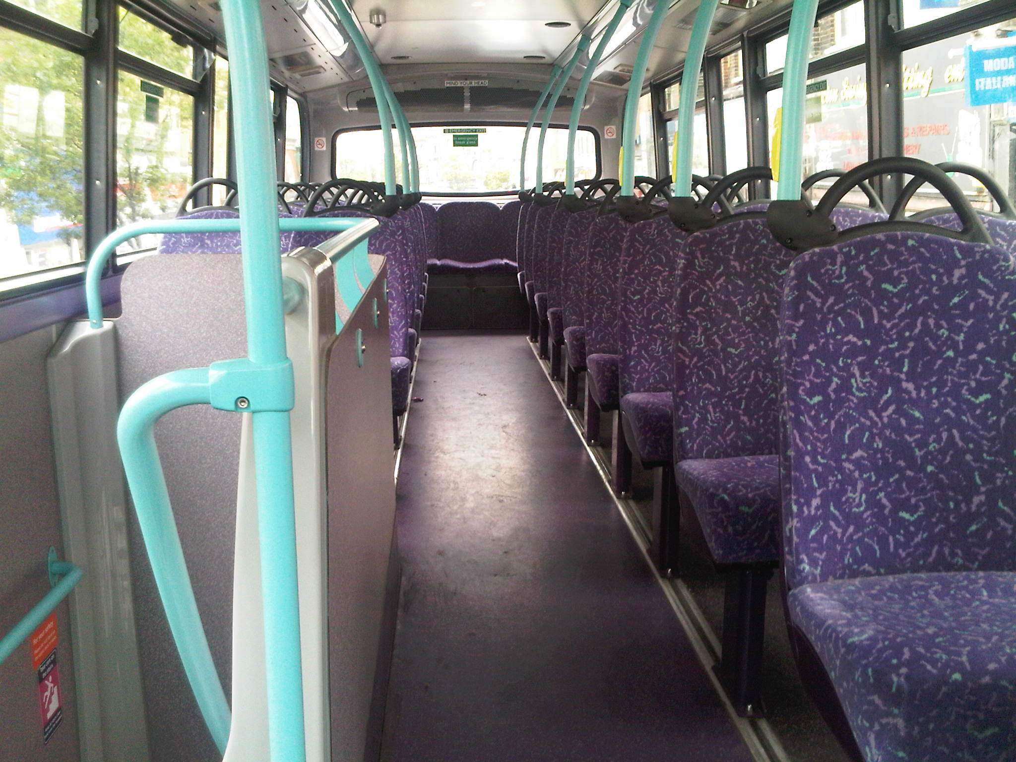 Upper deck of the Alexander Dennis Enviro 400 bus.